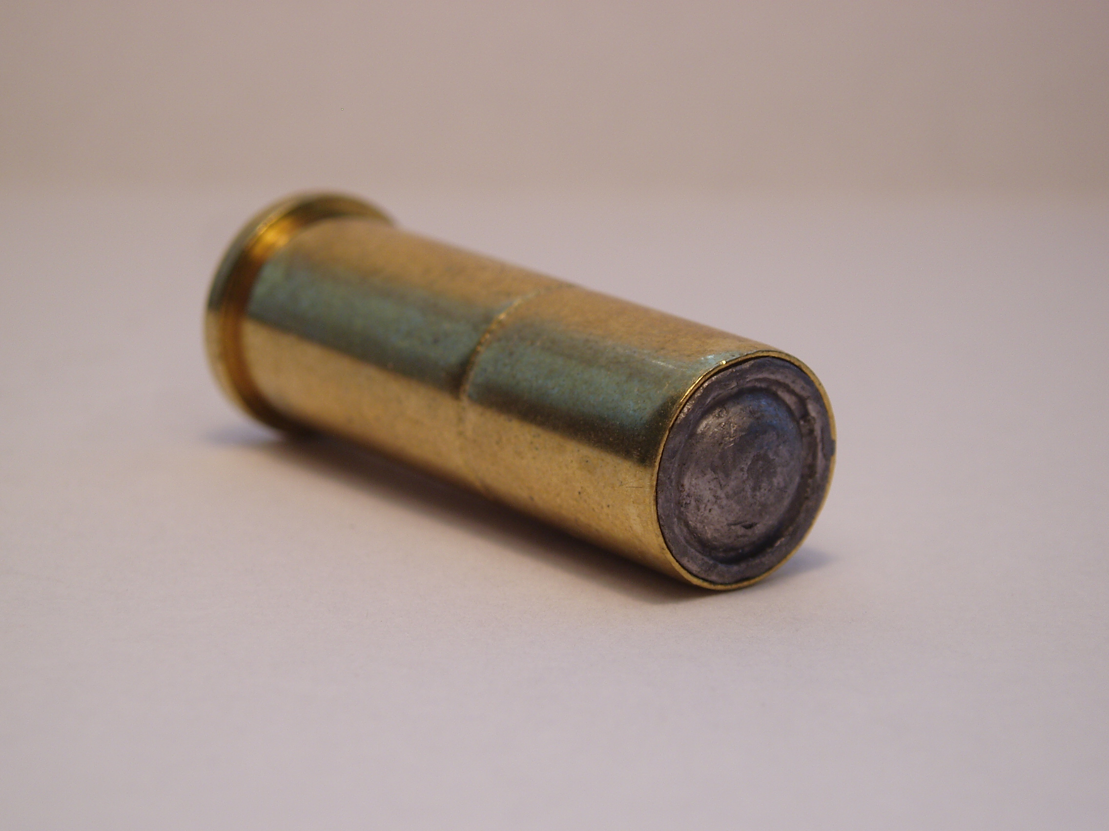 .38 Special revolver cartrdige. Wadcutter bullet. Manufacturer: Sellier & Bellot.